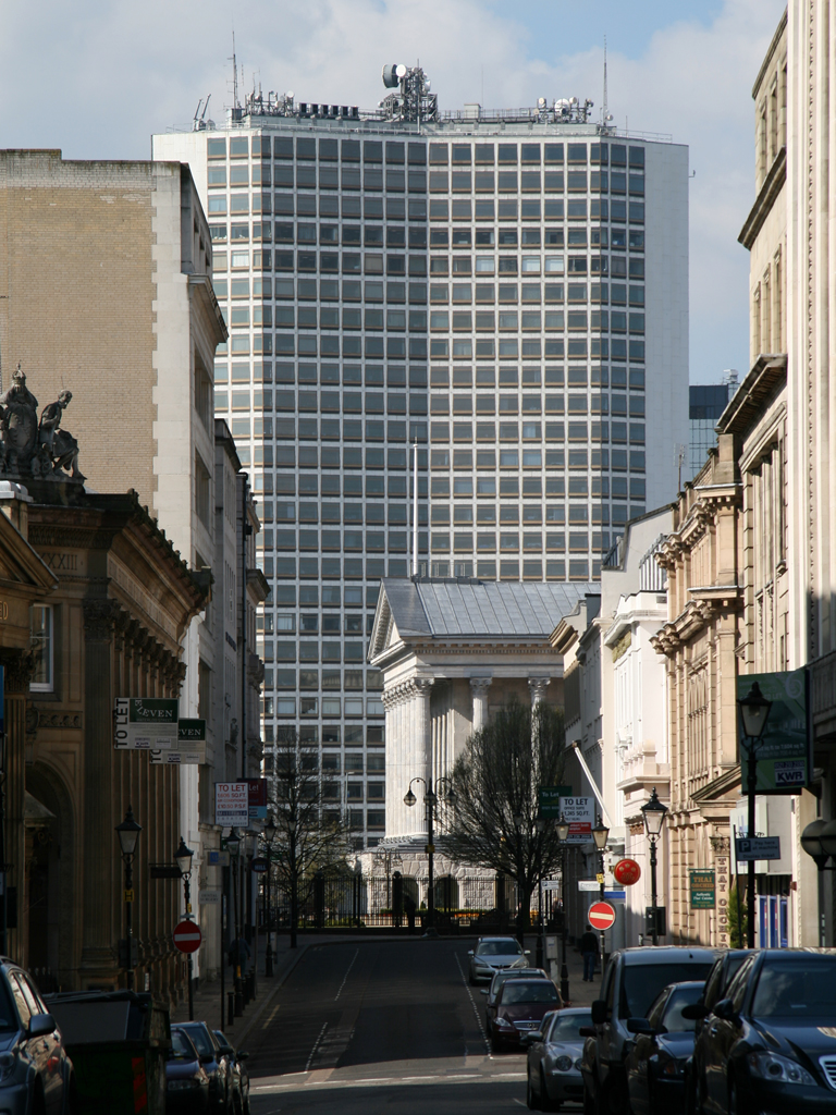 Waterloo Street in Birmingham, showing Alpha Tower and Birmingham Town Hall